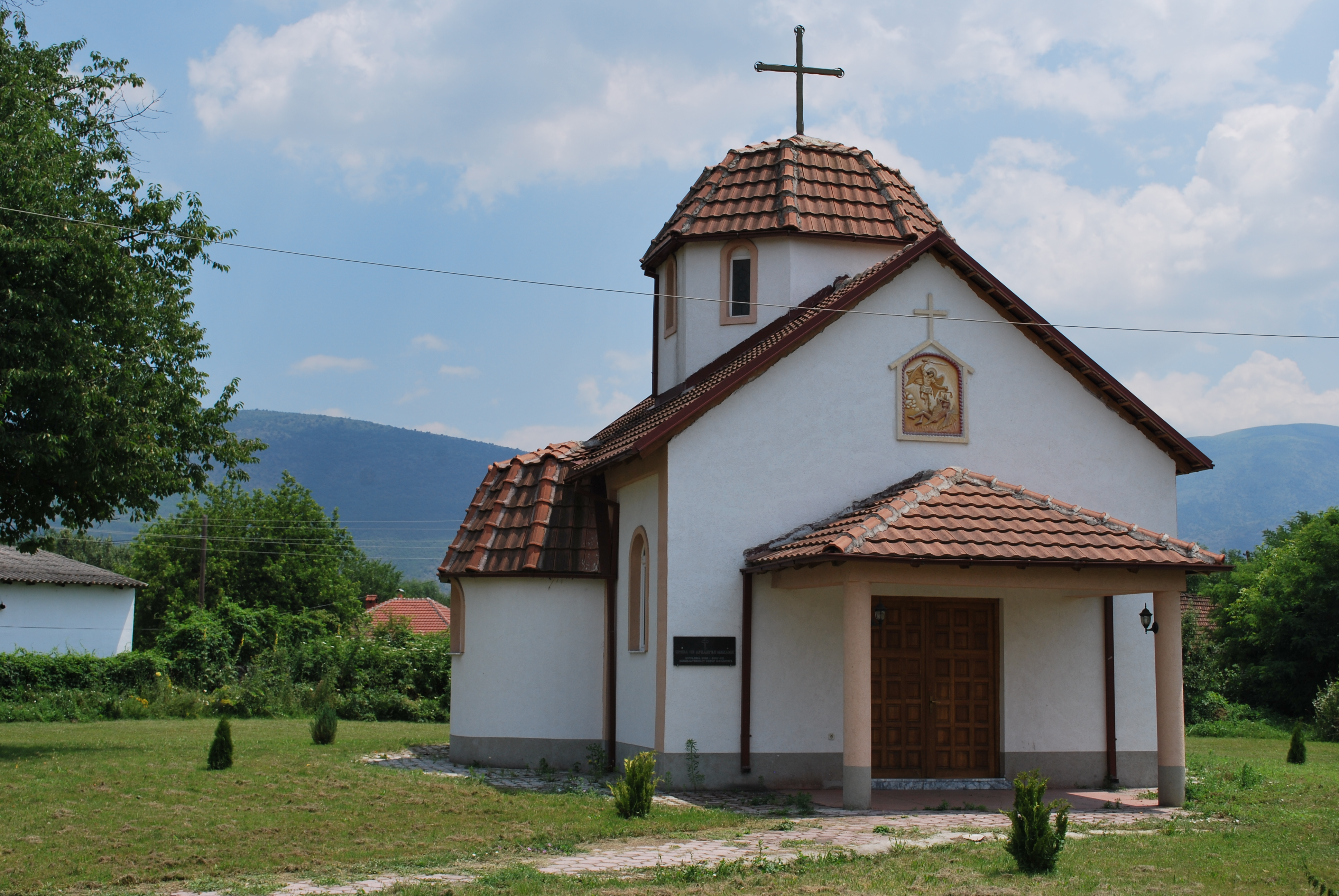 St. Michael the Archangel Church in Podbrege, Macedonia